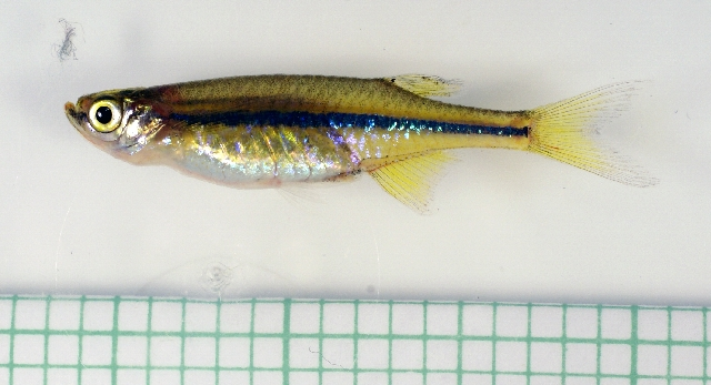 Laubuca dadiburjori